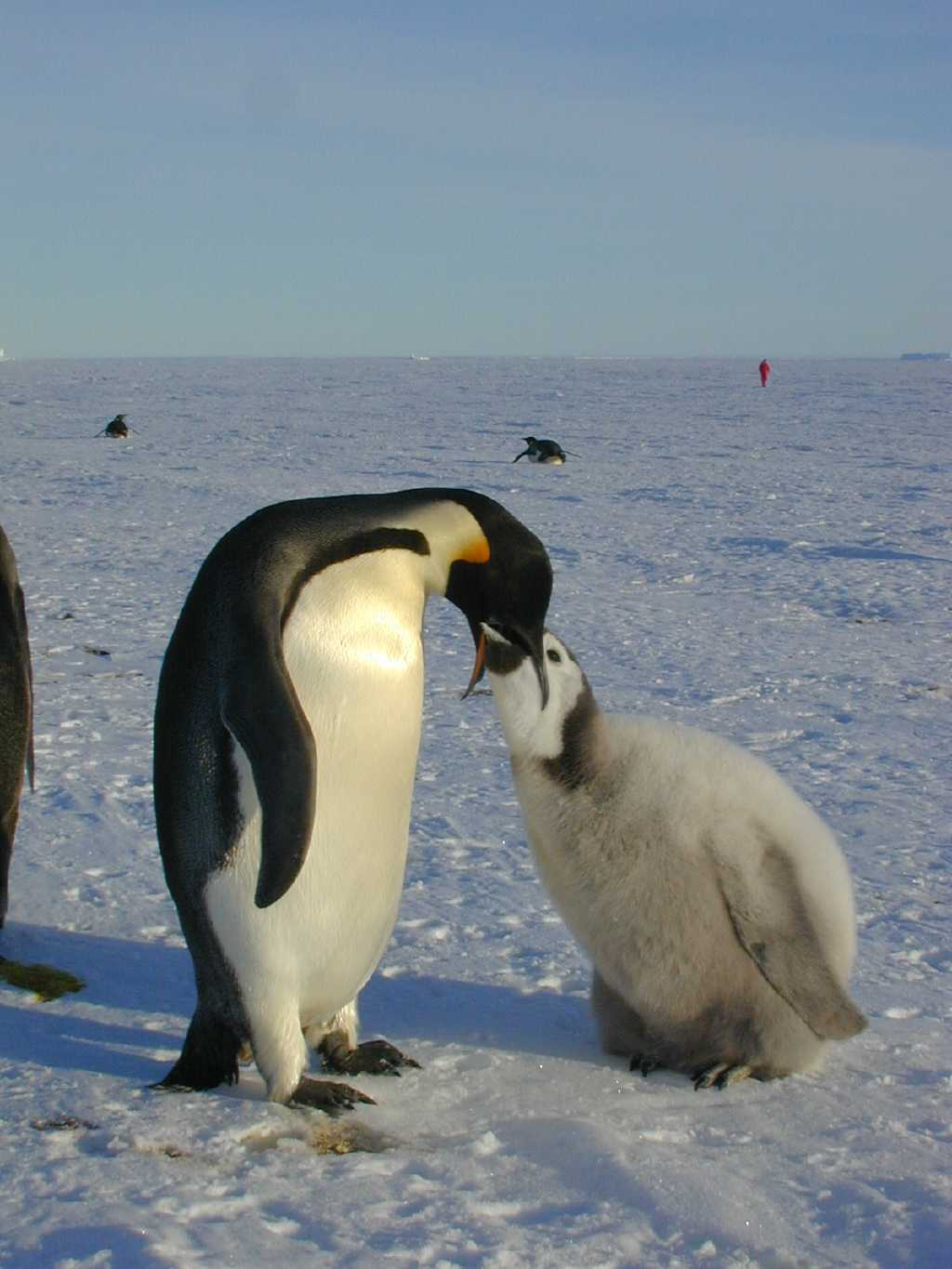 Emperor Penguin, Atka Bay, Weddell Sea, Antarctica